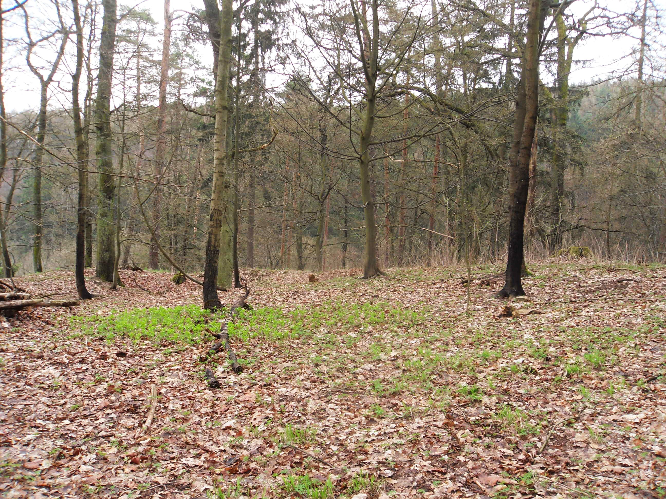 Remains of castle, Zbraslav, Brno-Country District, Czech Republic